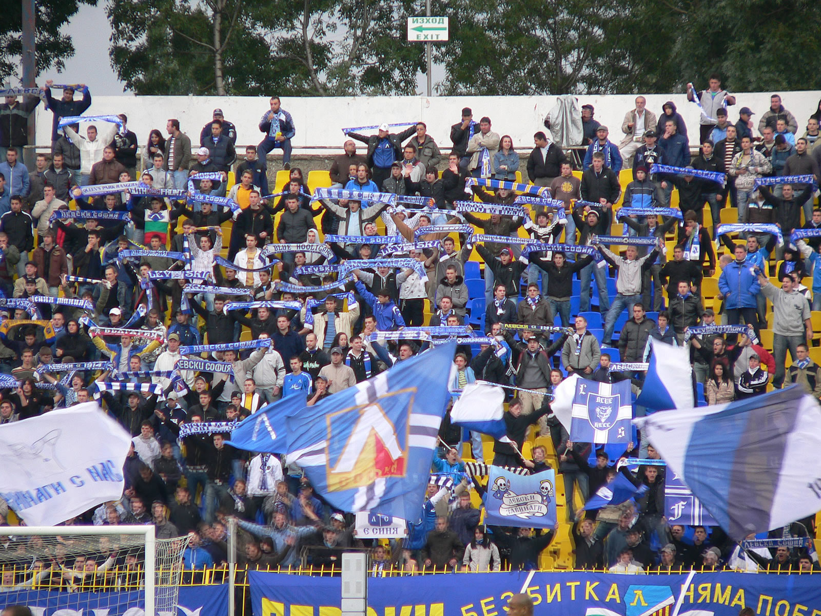 Fans of Bulgarian football club PFC Levski Sofia during their 2008-09 season A PFG home match against PFC Litex Lovech.